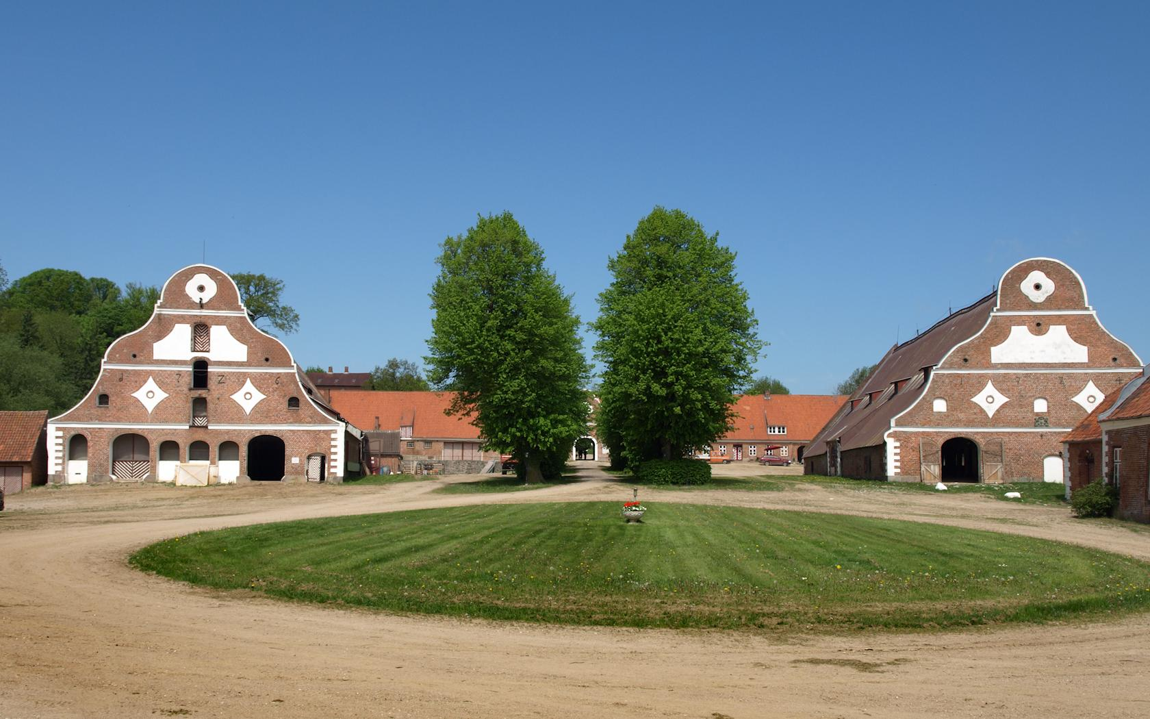 Manor Rastorf(Schleswig-Holstein, Germany) , photo 2011